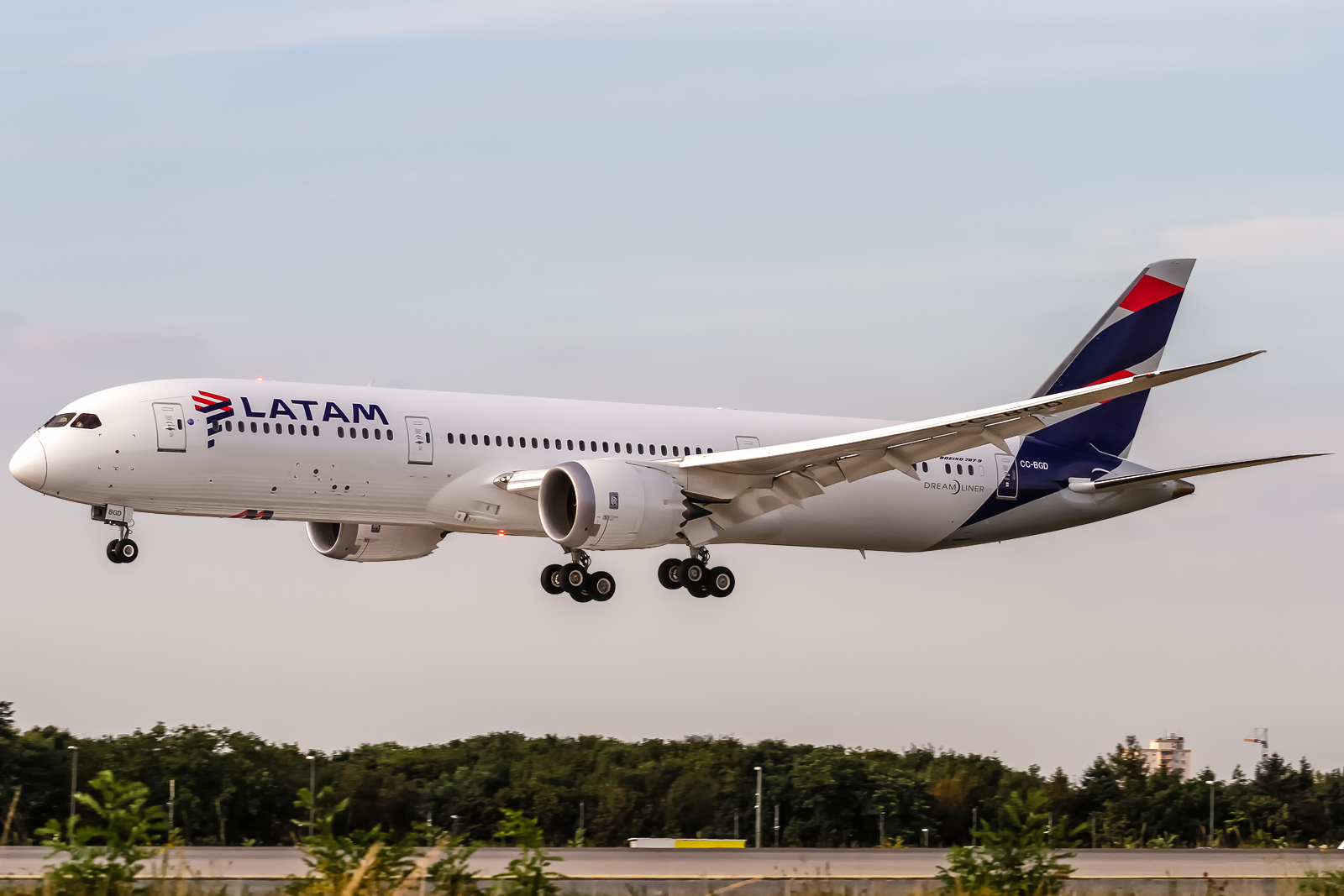 CC-BGD LAN Airlines Boeing 787-9 Dreamliner coming in from Madrid (LEMD) @ Frankfurt International (EDDF) / 02.09.2016